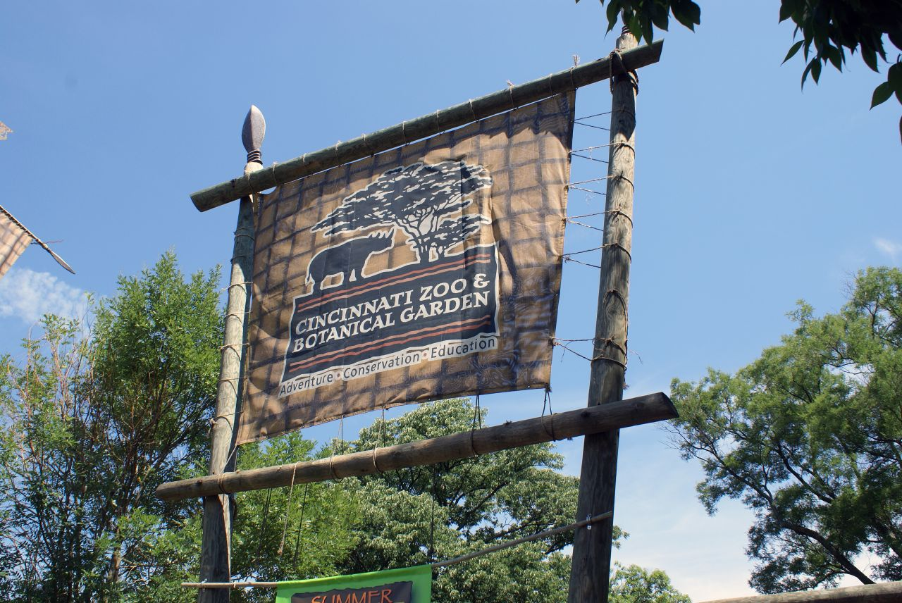 description: Cincinnati Zoo photographer: Paul Everett photographer_location: Indianapolis, IN photographer_url: [1] flickr_url: [2] taken:August 10, 2007